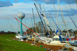 Pleasure Island Port Arthur Texas after Hurricane Ike